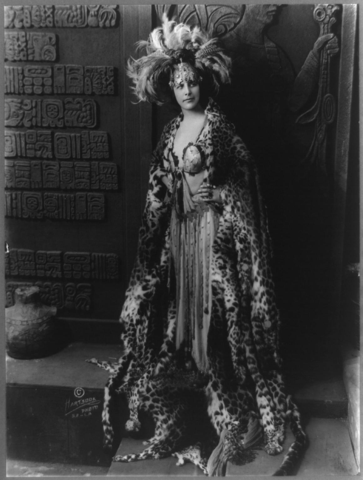 Opera singer and film actress Geraldine Farrar (1882-1967), standing, facing right wearing leopard skin robe and feather headdress - costume for The Woman God Forgot (publicity still)